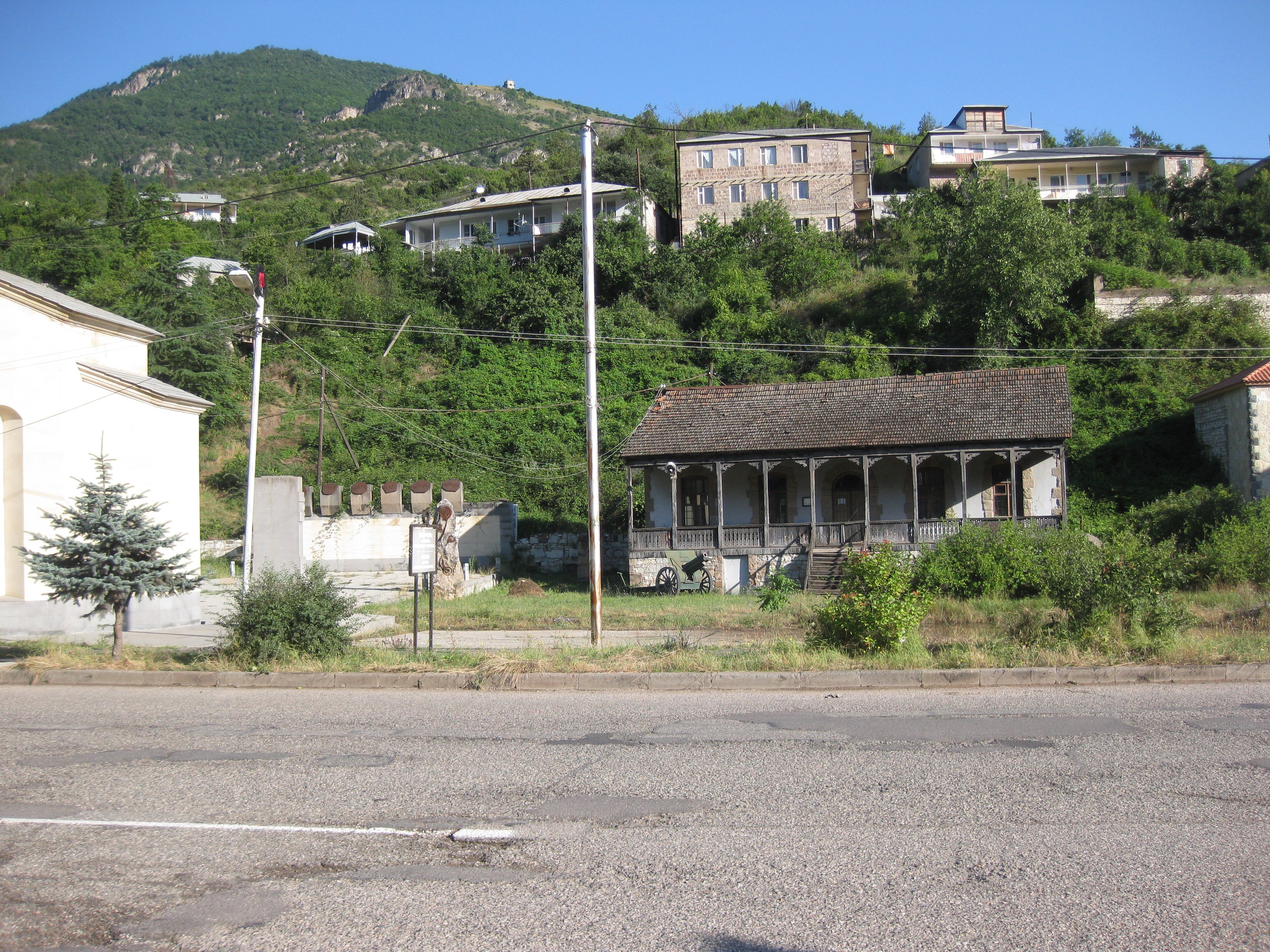 Building Historical and Cultural Museum of Ijevan, Armenia